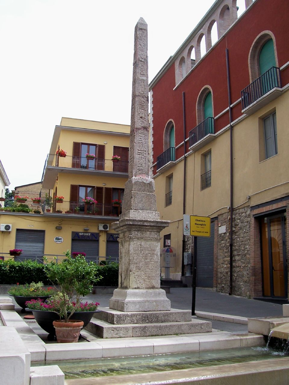 Egyptian obelisk from a temple dedicated to Isis, BeneventoObelisco Benevento